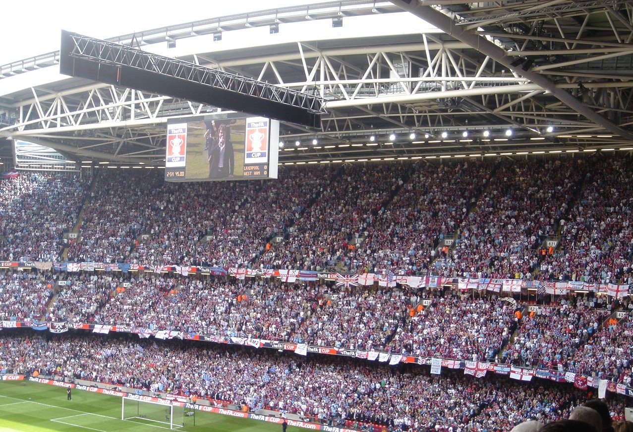 West Ham fans before 2006 Cup Final, Cardiff